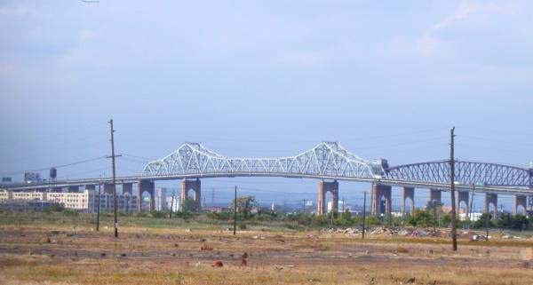 Goethals Bridge, as seen from northwestern Staten Island. The Arthur Kill Bridge (a vertical-lift drawbridge) is seen in the background to the right. © 2004 Matthew Trump